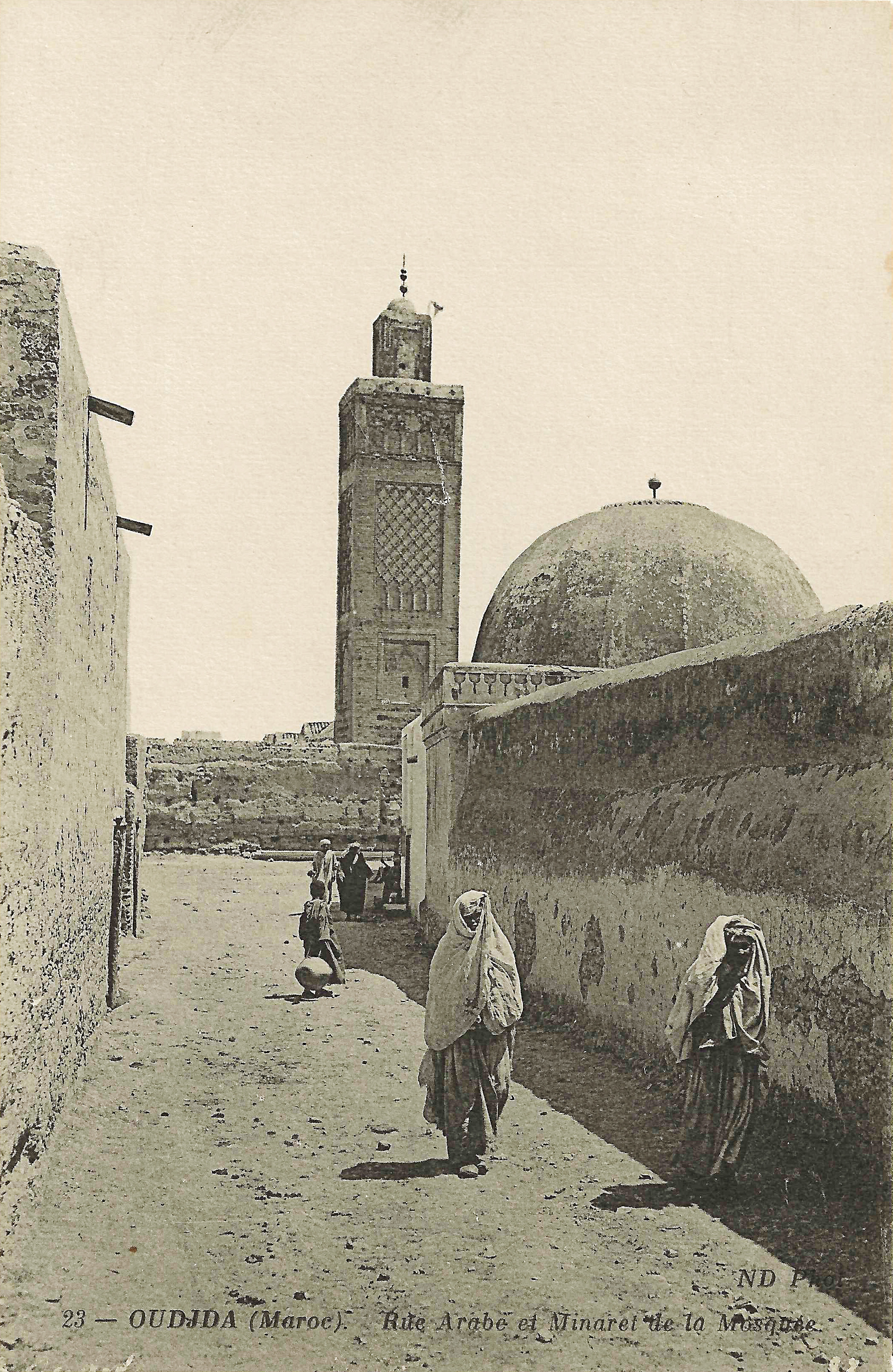 Arabic street and minaret of the mosque in Oujda, Oriental region in Morocco.